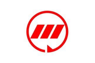 Flag of Kawajima Saitama